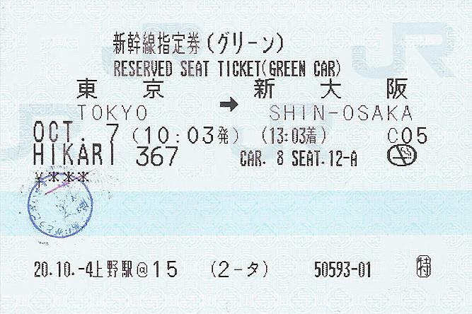 A scan from a 2008 Shinkansen Reserved Seat Ticket from Tokyo to Shin-Osaka. The ticket is printed in both English and Japanese, and has a conductor's stamp on it.